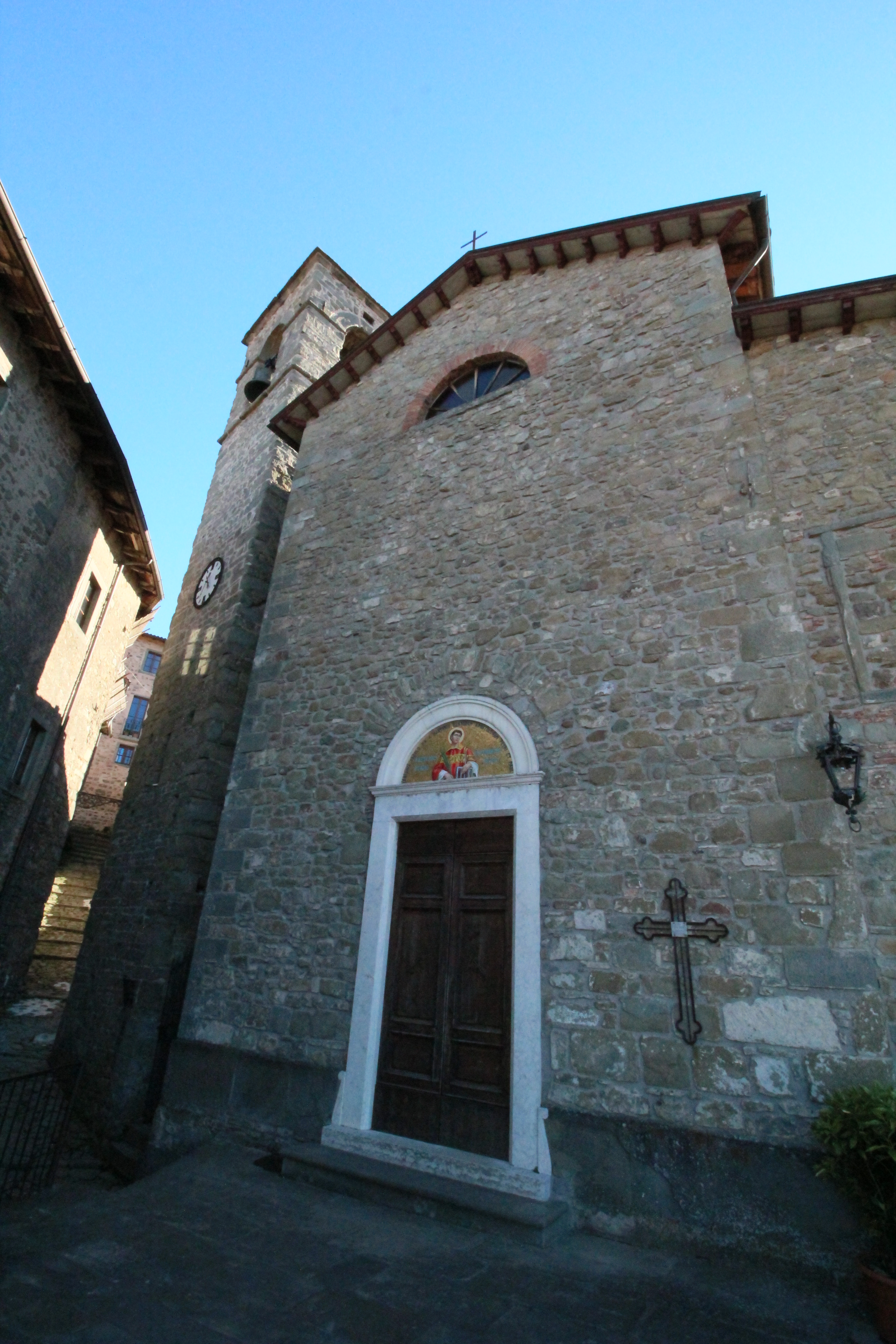 Church San Lorenzo in Sillico, hamlet of Pieve Fosciana, Garfagnana, Province of Lucca, Tuscany, Italy